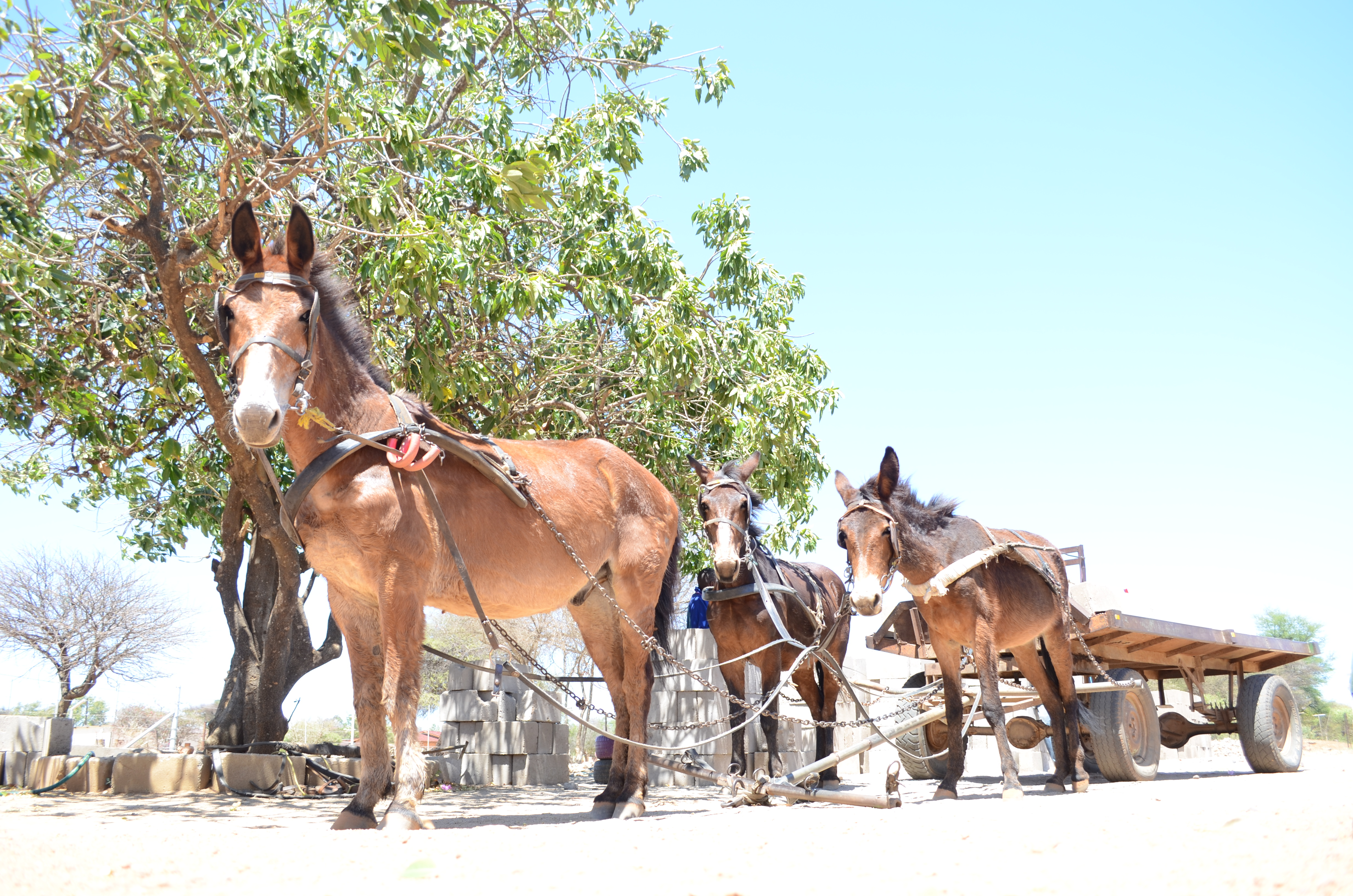 The Nageng family in Kanye use a donkey crossed with a horse to Transport Bricks .They run a small Brick moldin Business.They use this animal to save cost because they believe it have unique genes that make hardworking.